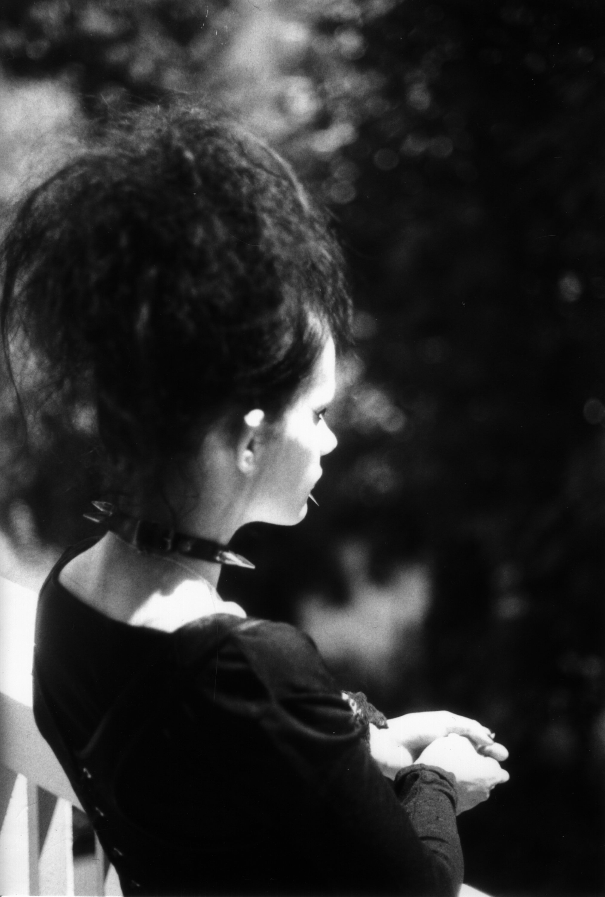 A black and white photographic picture of a gothic girl with medieval look, spikes and piercings. (Kremlin-Bicetre, France, 2001)